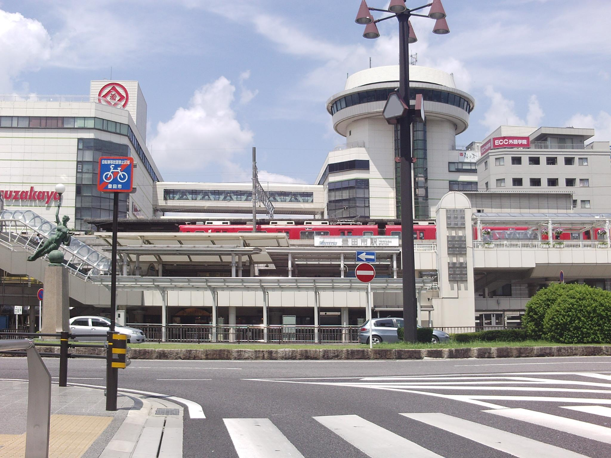 Aichi prefectural road No.342 in Kitamachi 2-chome, Toyota, Aichi.